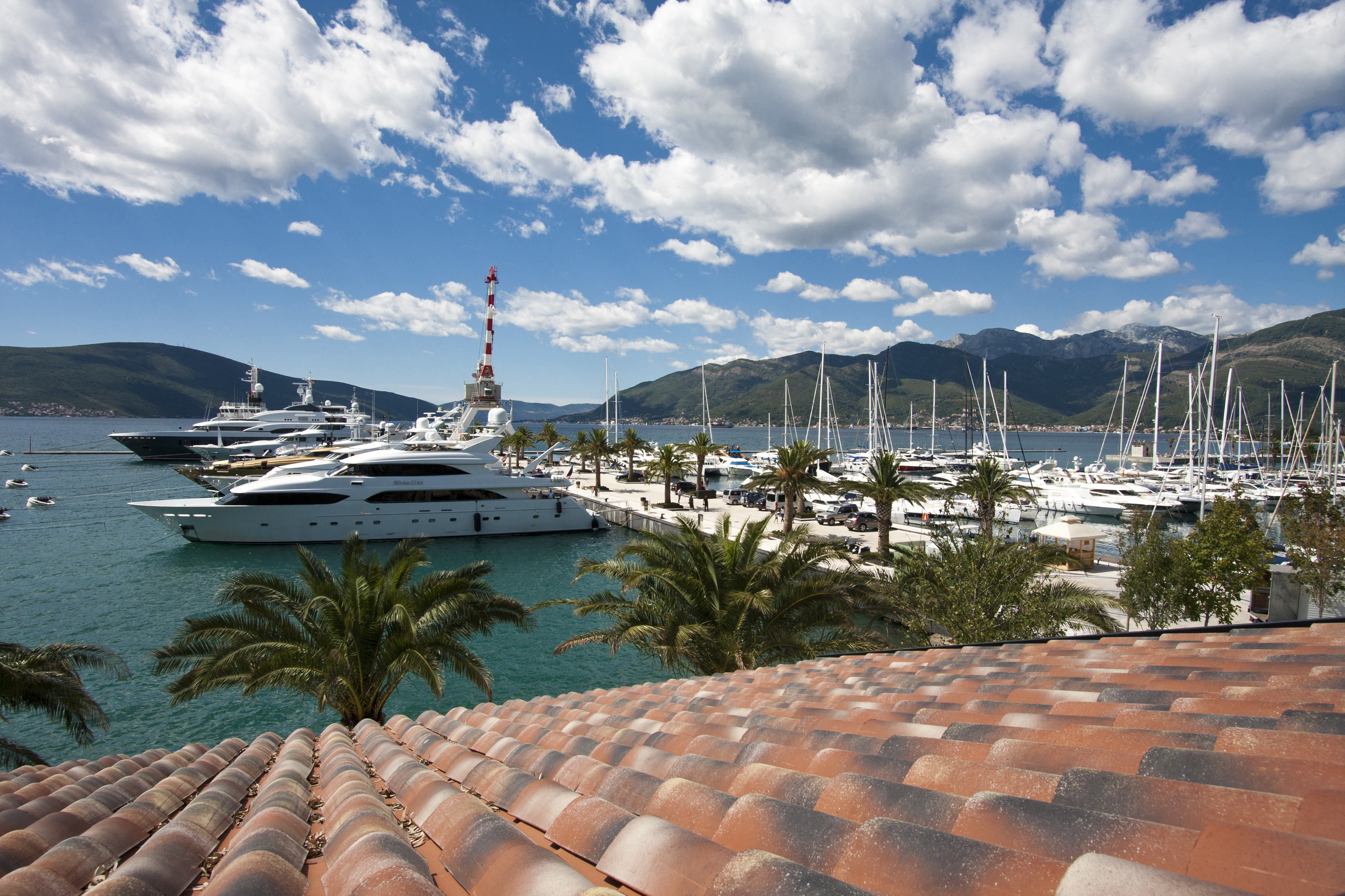 The view on Porto Montenegro from Teuta Residences